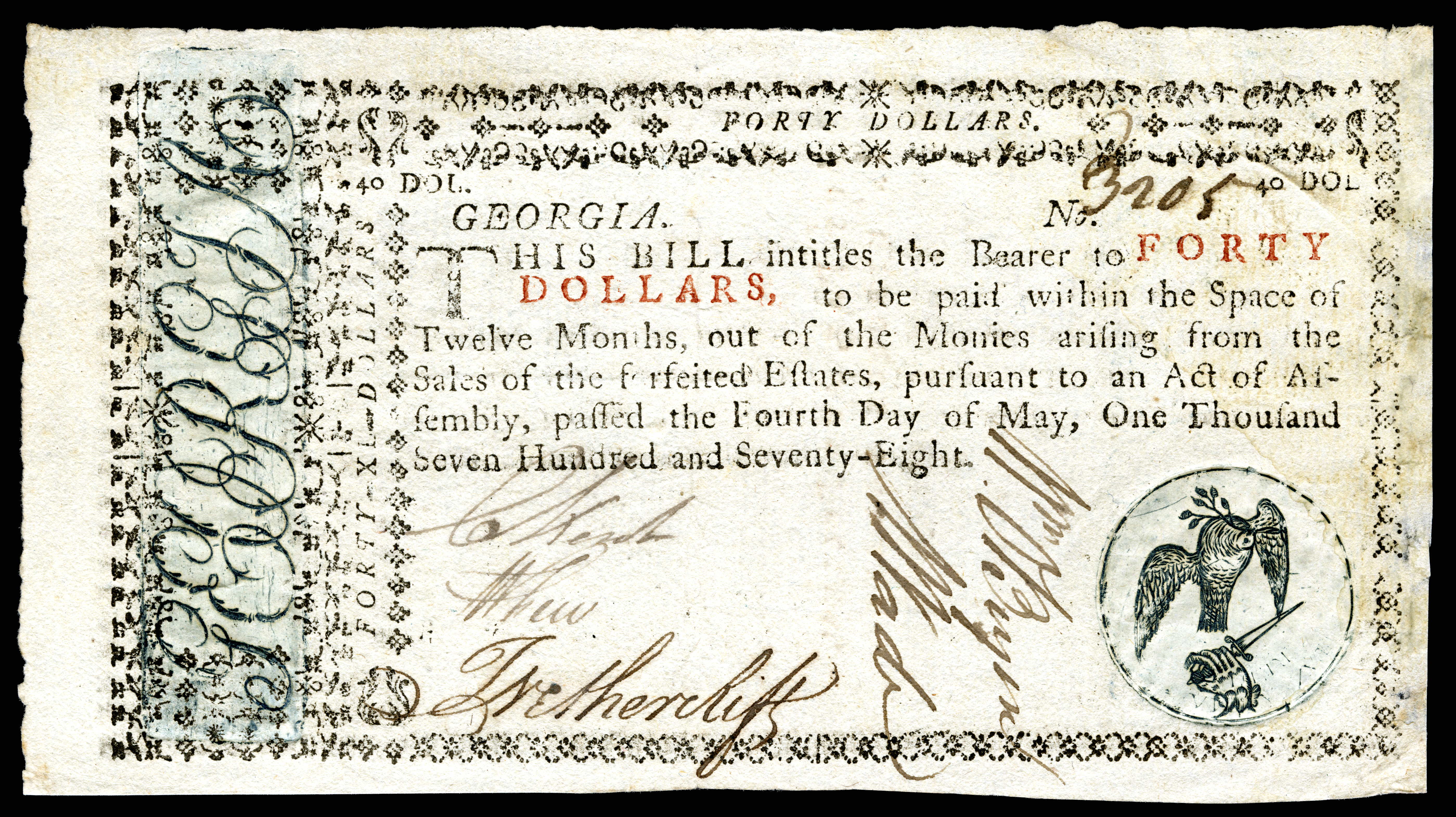 $40 Colonial currency from the Province of Georgia. Signed by Charles Kent, William Few, Thomas Netherclift, William O’Bryen, and Nehemiah Wade. Printed by W. Lancaster (Savannah). (Friedberg Colonial ref# GA-124).